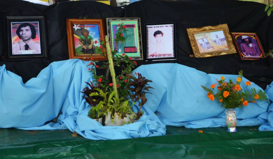 Monument dedicated to the victims of 1985 Tchaivatcha Tragedy, Souro Suco, Lautém District, East Timor. Inauguration 2015-7-21